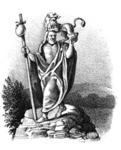 Flyns-slavic deity. This work is in the public domain in its country of origin and other countries and areas where the copyright term is the author's life plus 70 years or less. You must also include a United States public domain tag to indicate why this work is in the public domain in the United States. Note that a few countries have copyright terms longer than 70 years: Mexico has 100 years, Jamaica has 95 years, Colombia has 80 years, and Guatemala and Samoa have 75 years. This image may not be in the public domain in these countries, which moreover do not implement the rule of the shorter term. Côte d'Ivoire has a general copyright term of 99 years and Honduras has 75 years, but they do implement the rule of the shorter term. Copyright may extend on works created by French who died for France in World War II (more information), Russians who served in the Eastern Front of World War II (known as the Great Patriotic War in Russia) and posthumously rehabilitated victims of Soviet repressions (more information). This file has been identified as being free of known restrictions under copyright law, including all related and neighboring rights.